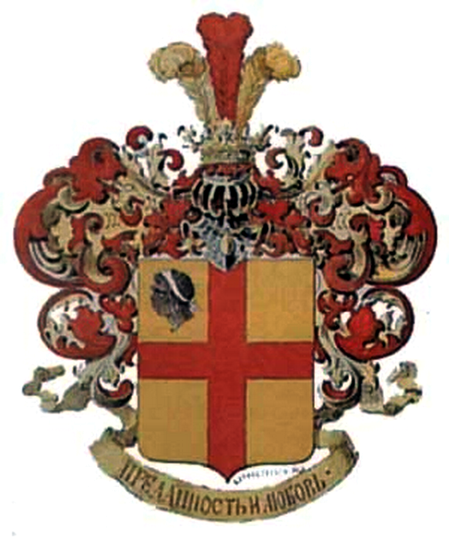 Coat of Arms of family Mavrocordato